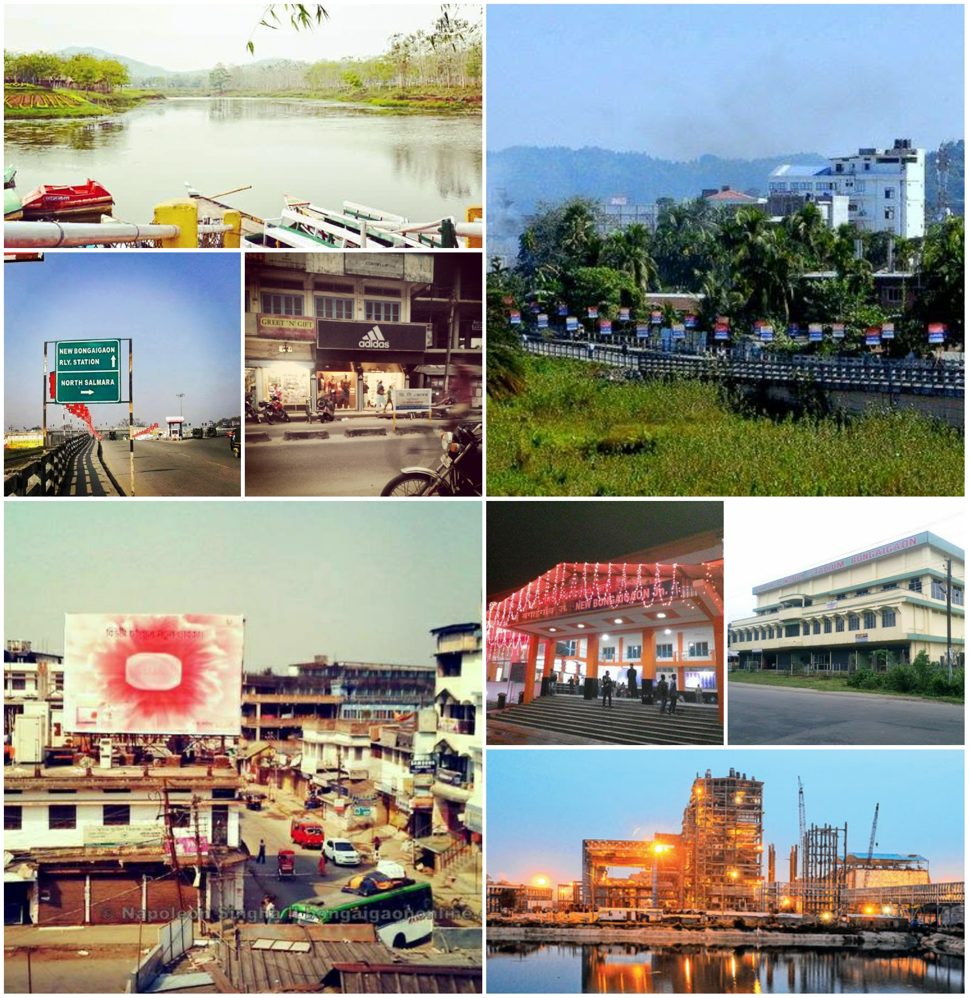 This is collage picture of Bongaigaon.